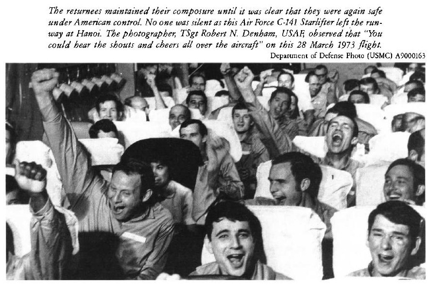 wyswyg From 12 February 1973 until 4 April 1973, Operation Homecoming, returning POW's from Hanoi and VC camps in South Vietnam went to Clark Air Force Base in the Philippines. With Blue Ridge still in its homeport of San Diego, she contributed its current ship's intelligence officer and prior ship's intelligence officer to the operation. "The Army, Navy, Air Force and Marines each had liaison officers dedicated to prepare for the return of American POWs well in advance of their actual return. These liaison officers worked behind the scenes traveling around the United States assuring the returnees well being. They also were responsible for debriefing POWs to discern relevant intelligence about MIAs and to discern the existence of war crimes committed against them."